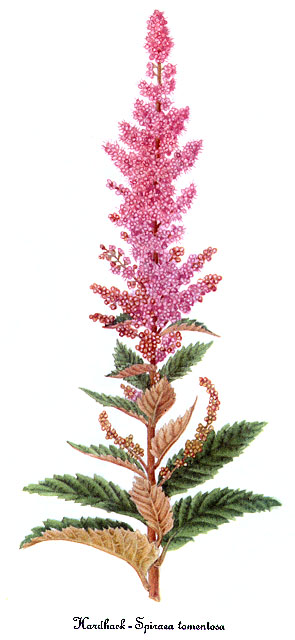 Watercolor painting of Spiraea_tomentosa.